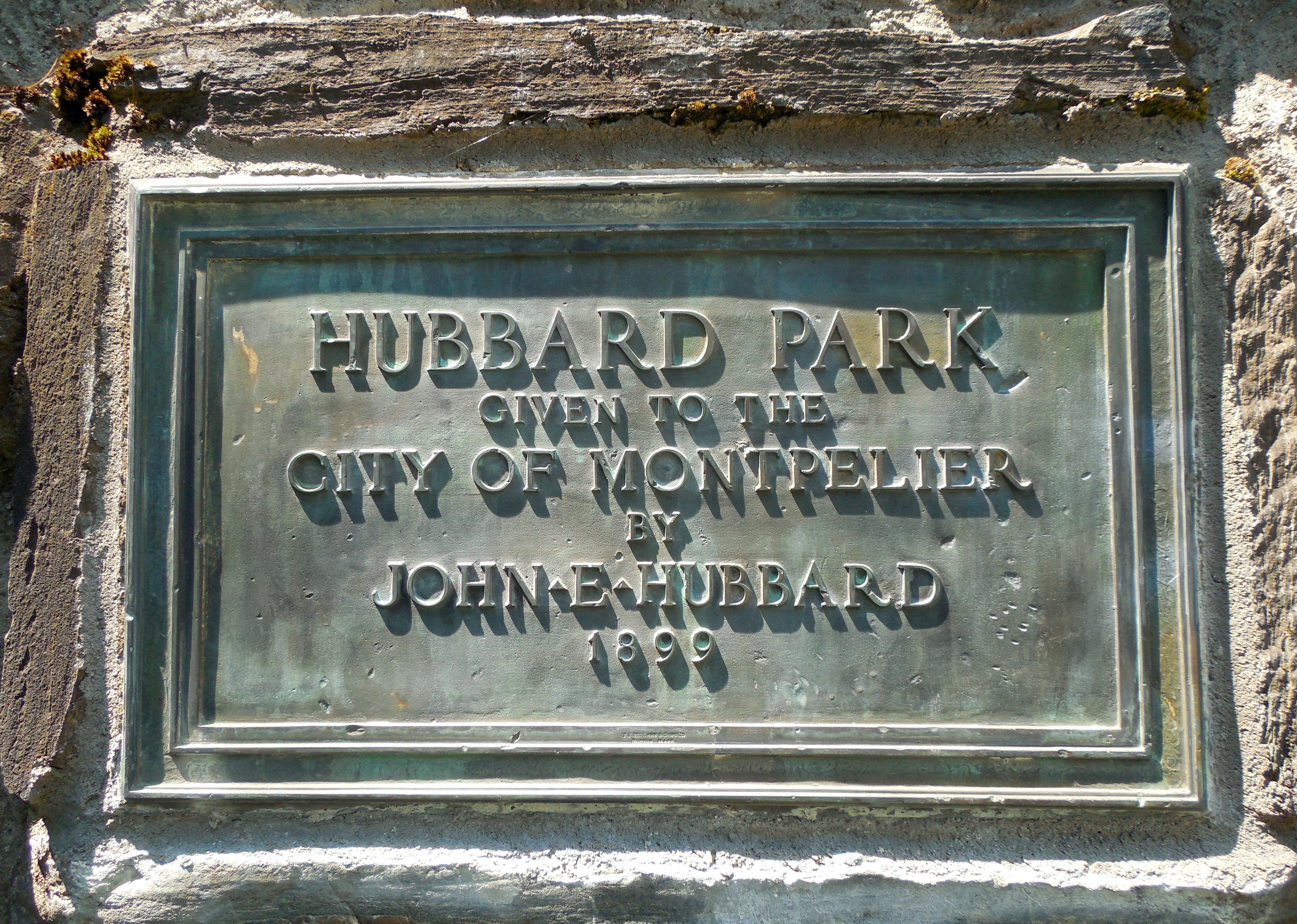 1st plaque at the eastern (Winter Street) entrance to Hubbard Park in Montpelier, Vermont, 2017